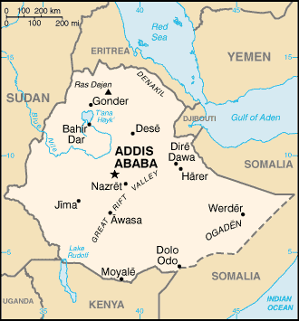 Ethiopia map from CIA World Factbook 2004, converted from original GIF format